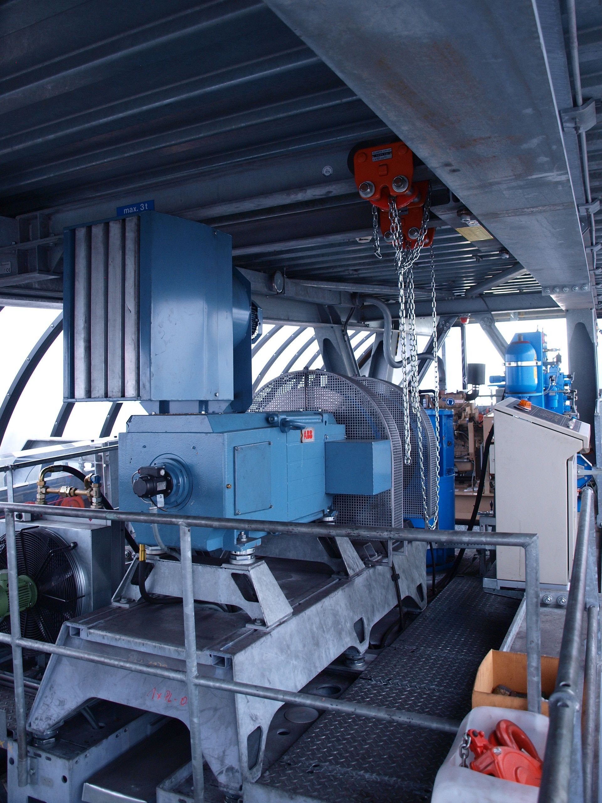 Cableway Muttersberg, Bludenz/Nueziders. Drive station (top station).